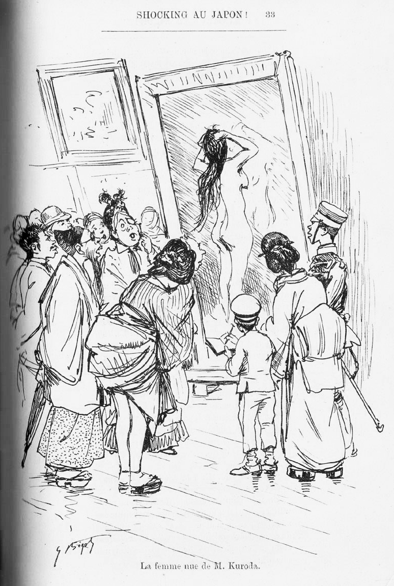 La femme nue de M. Kuroda, by Georges Bigot, from Shocking au Japon: De revolution de l'art dans I'empire du soleil levant, by Fernand Ganesco (1895); reaction to Kuroda Seiki's Morning Toilette